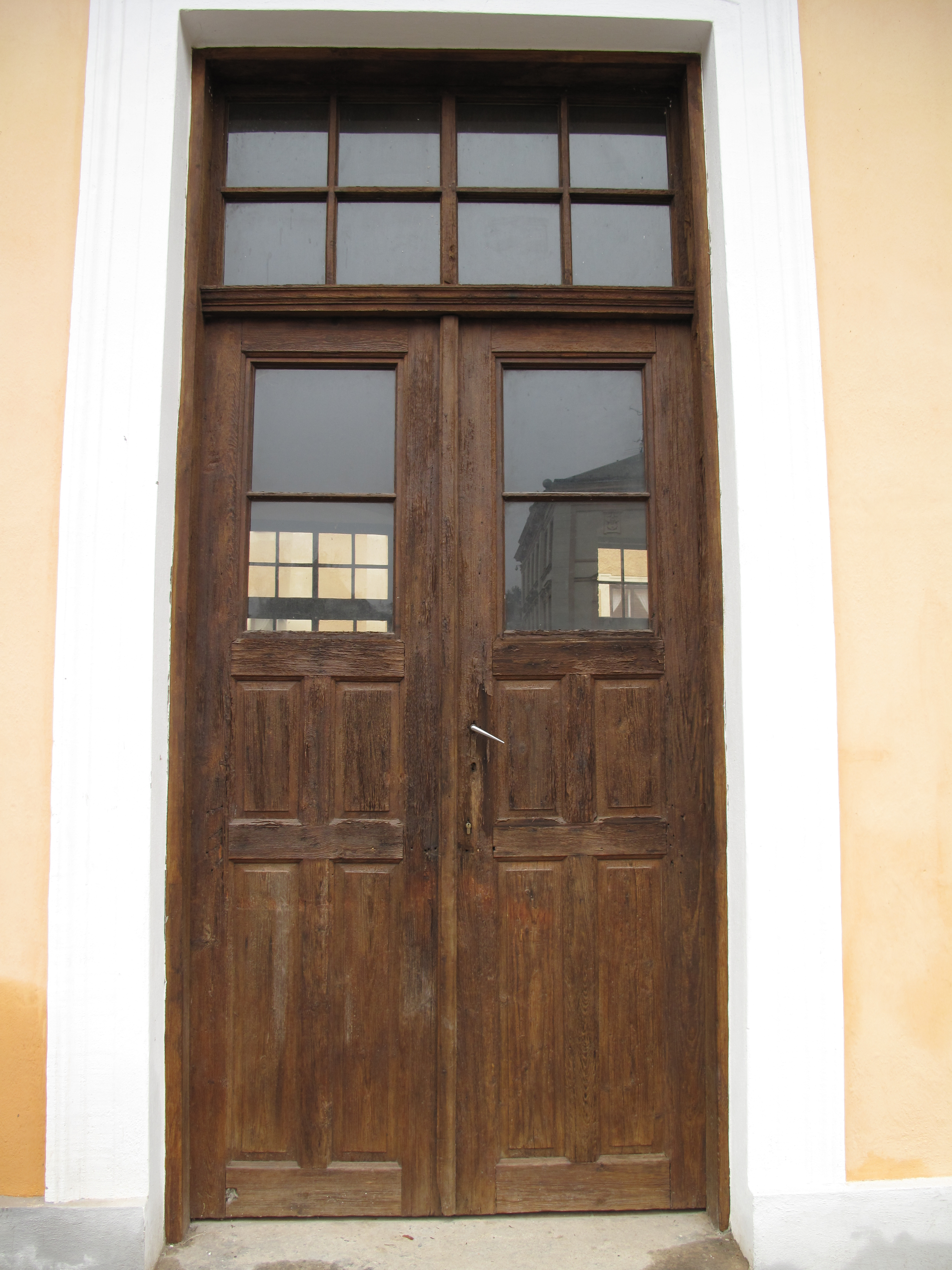 Kájovská Street 58, Český Krumlov, Czech Republic.